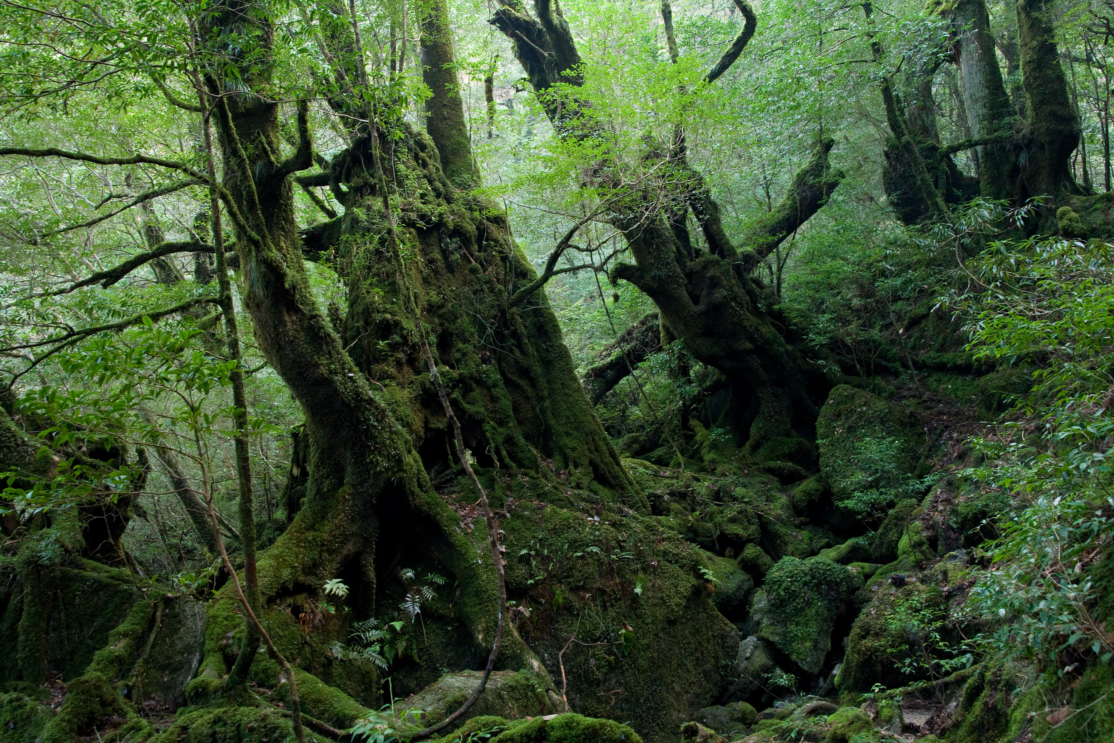 Forest in Shiratani Unsui Gorge, Yakushima, Kagoshima Pref., Japan.